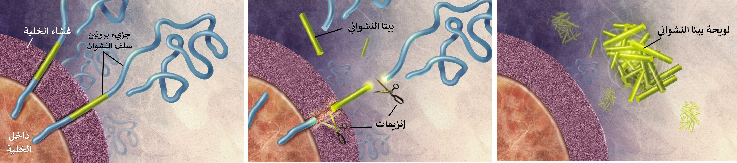 Enzymes act on the APP (Amyloid precursor protein) and cut it into fragments of protein, one of which is called beta-amyloid and its crucial in the formation of senile plaques in Alzheimer